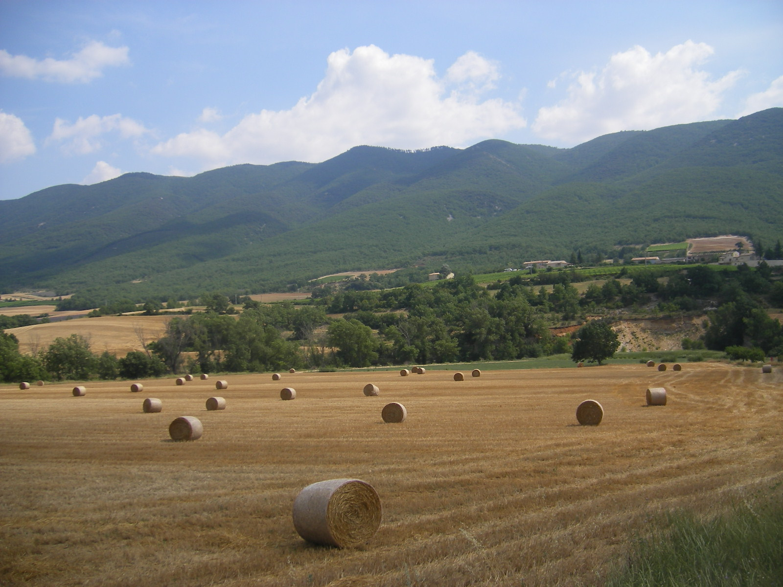 The northern part of the Lubéron Mountain as viewed from N100 route (Tour d´Embarbe)